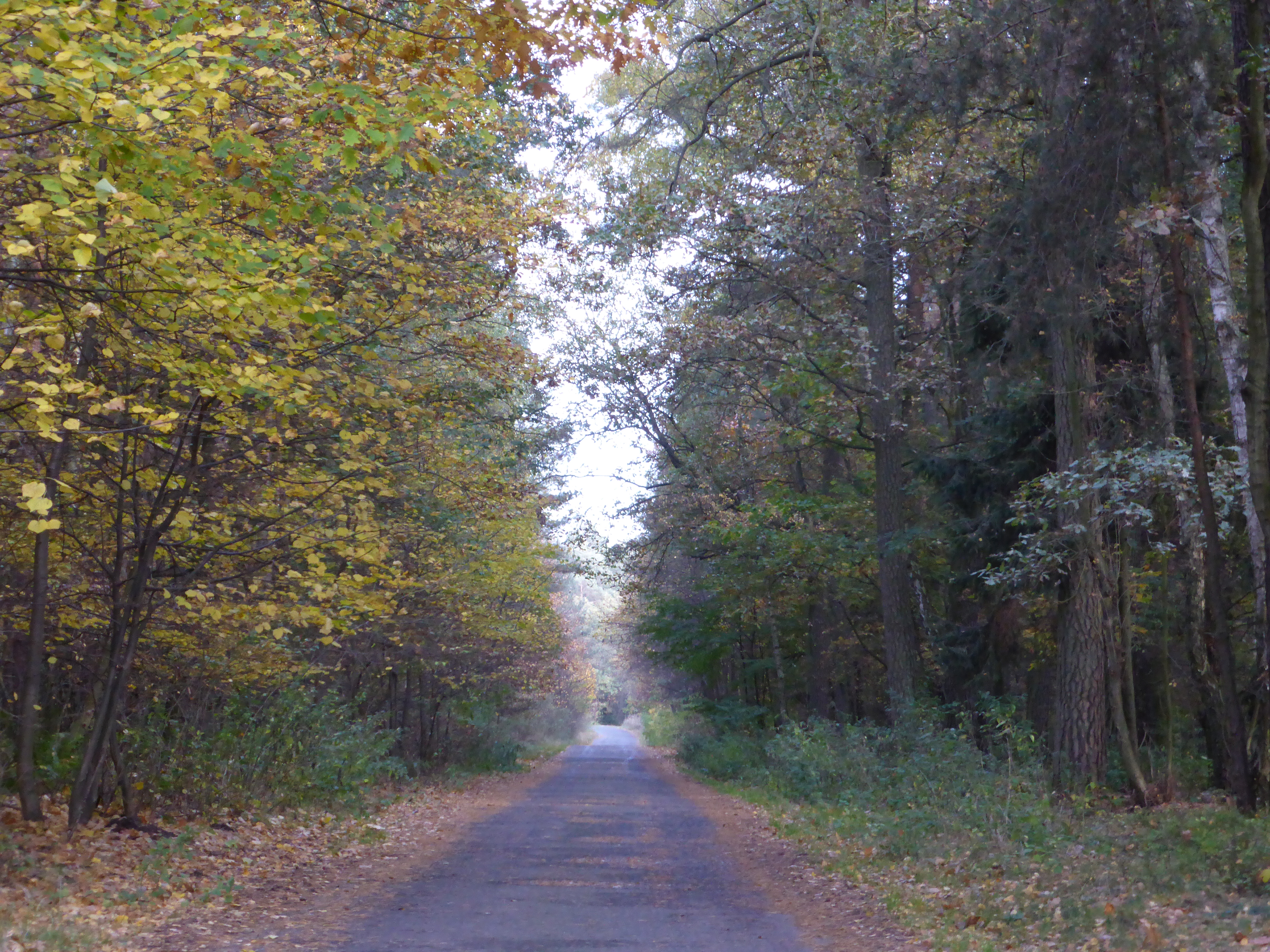 Forest near Grodzisk Wielkopolski (Poland)